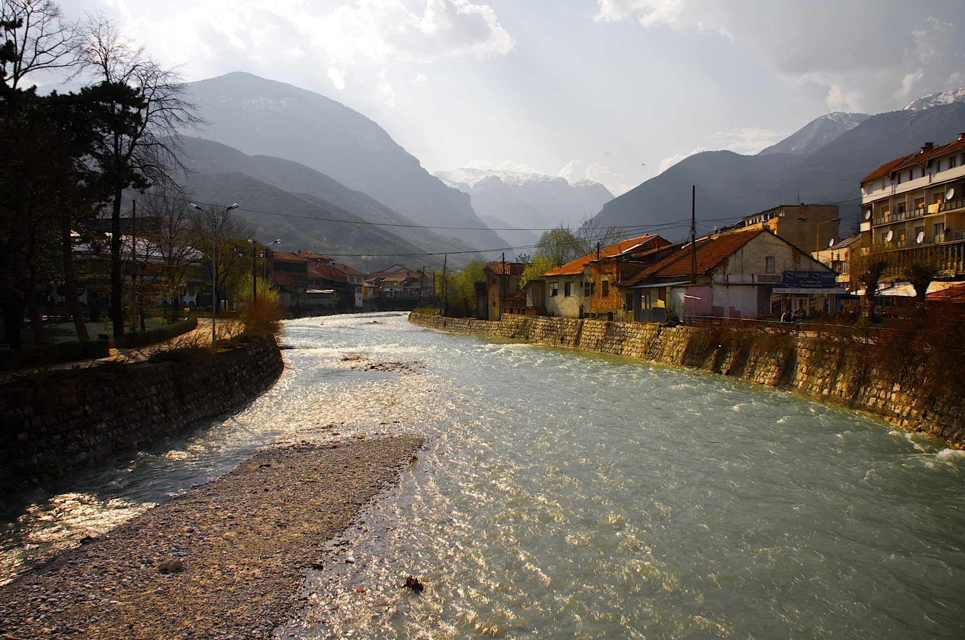 Pećka Bistrica river in Peć town,Serbia.